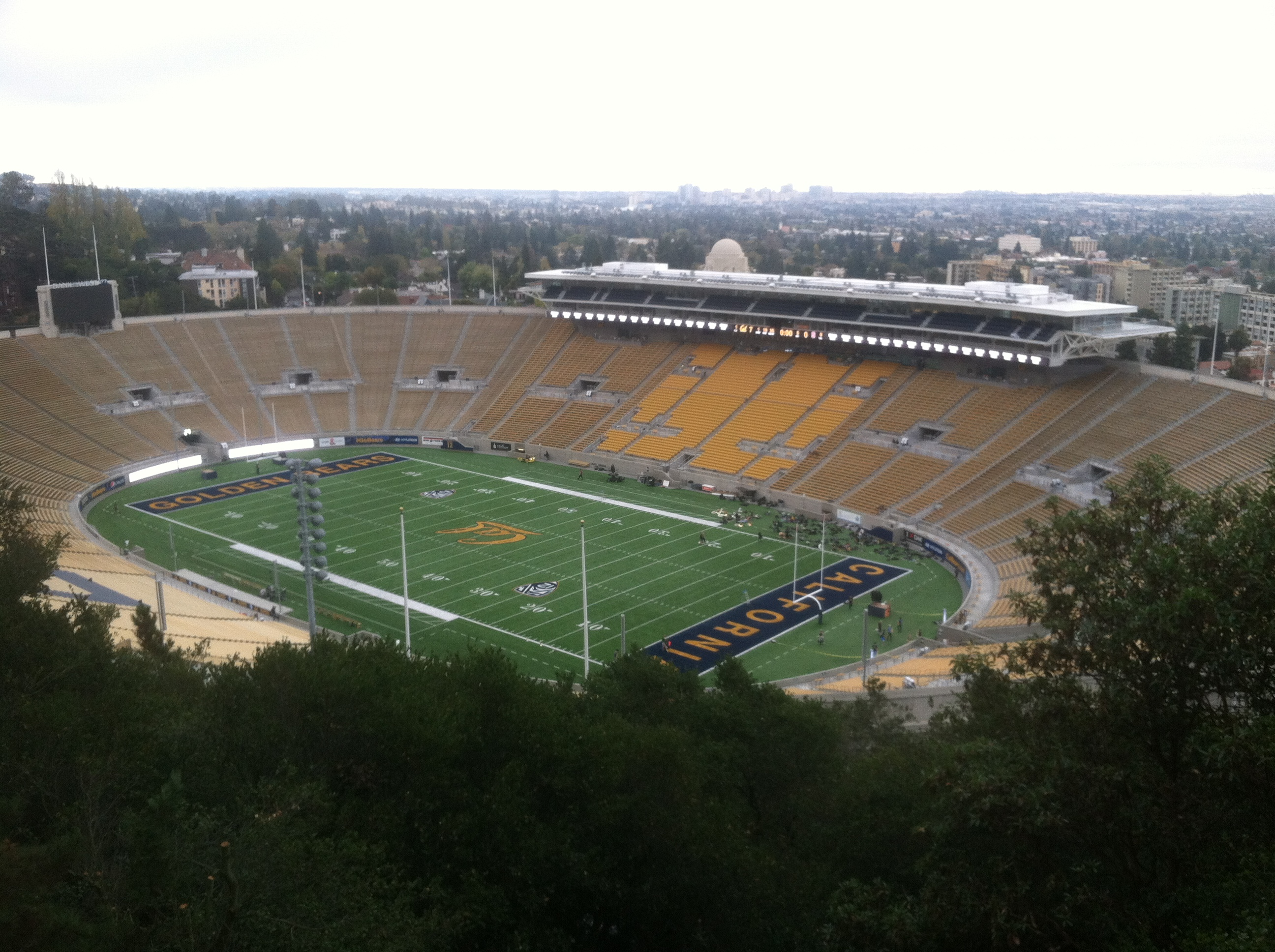 California Memorial Stadium on October 19, 2012 (post renovation)